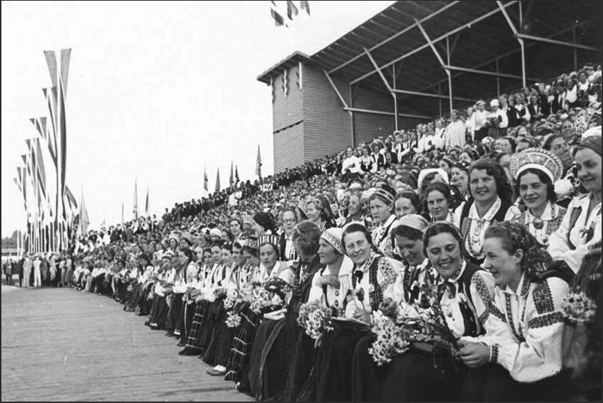 Latvia. Riga. IX Latvian Song Celebration. 1938.